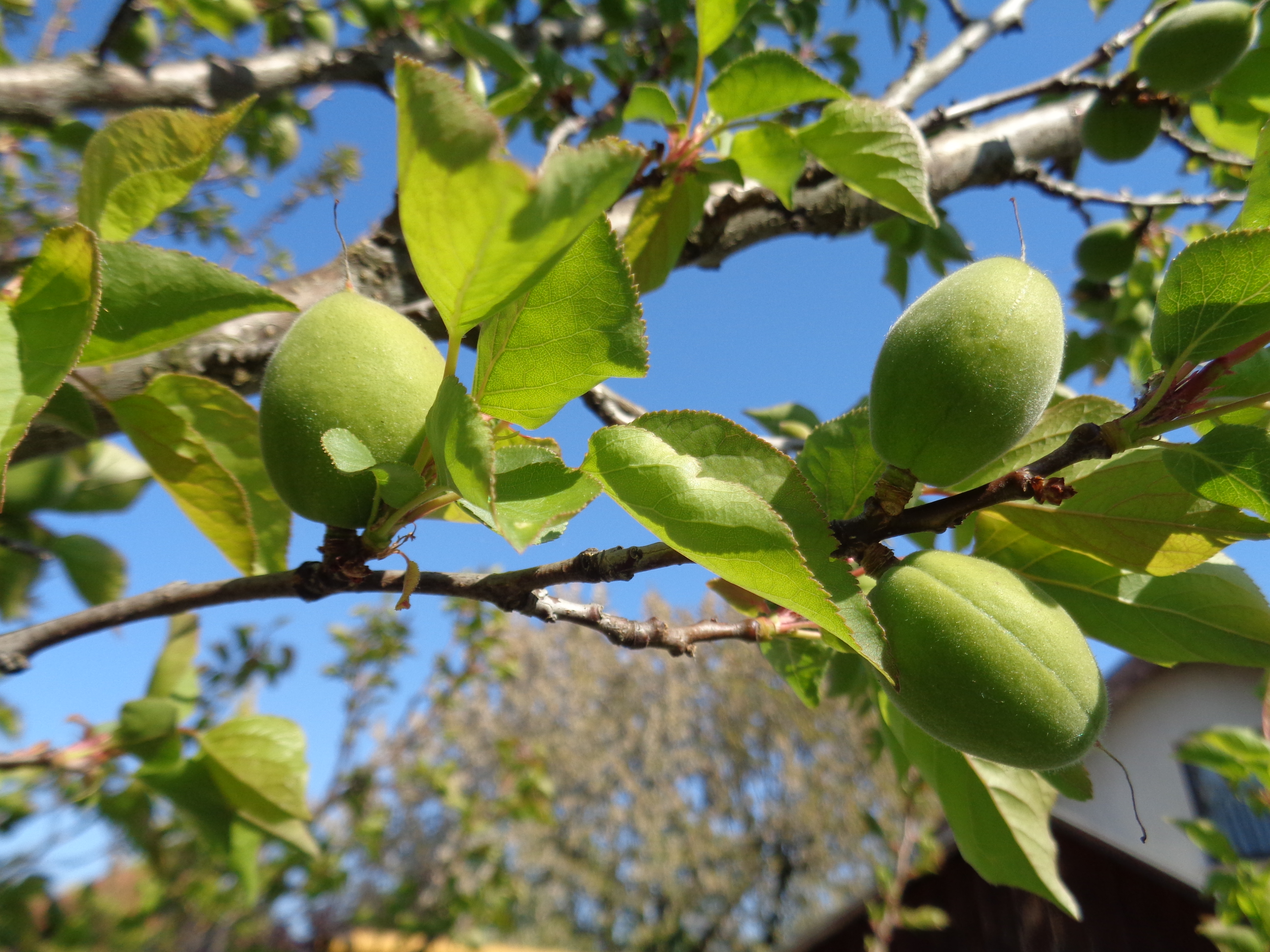 "Kecskemét rose" variety apricot unripe fruits in an orchard in Medjimurje County, Croatia